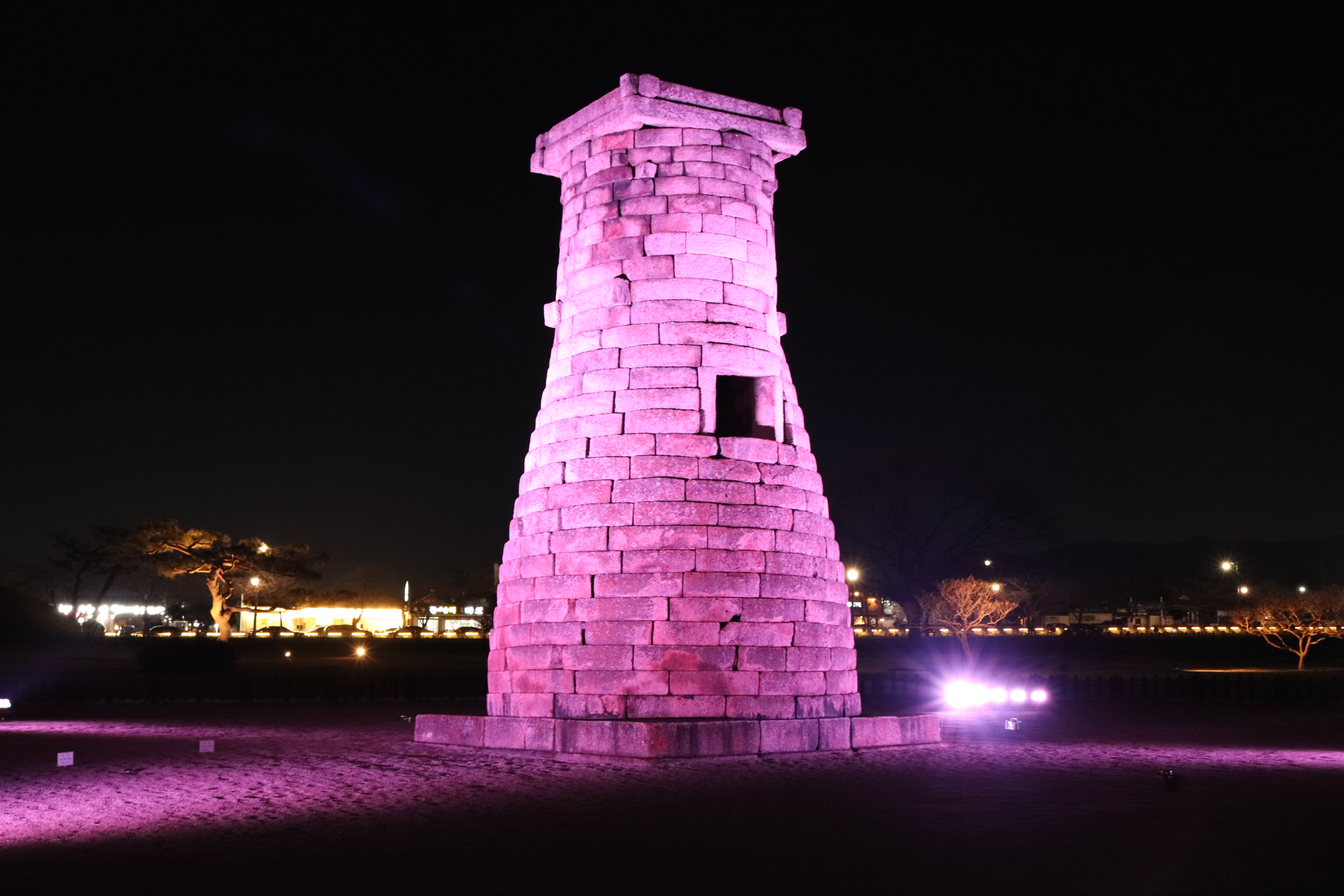 Cheomseongdae illuminated in violet at night